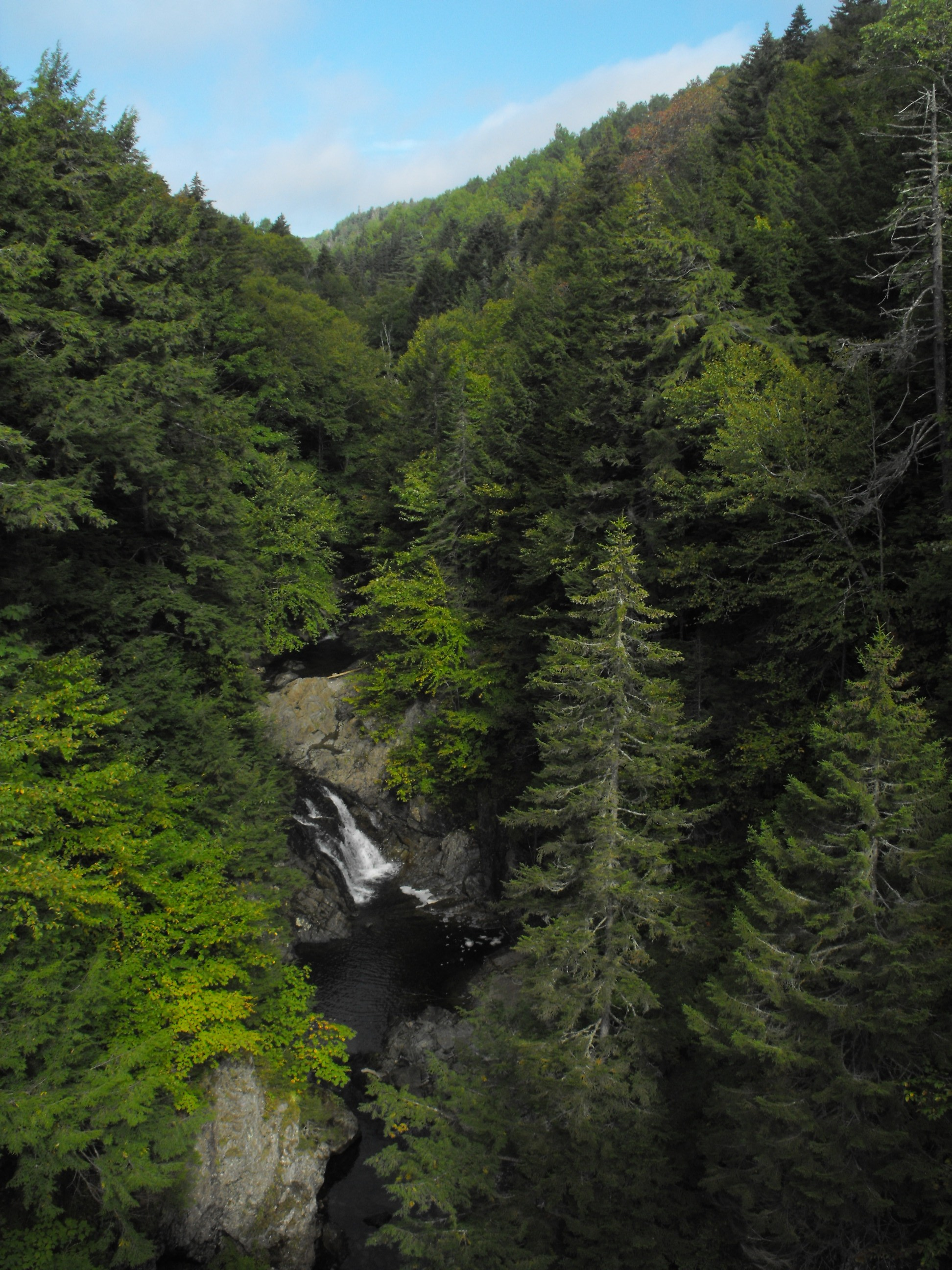 View of waterfall on the Great Village River, flowing south from the Cobequid Mountains, Nova Scotia, Canada. Picture taken from a bridge across the river in the vicinity of Acadia Mines.